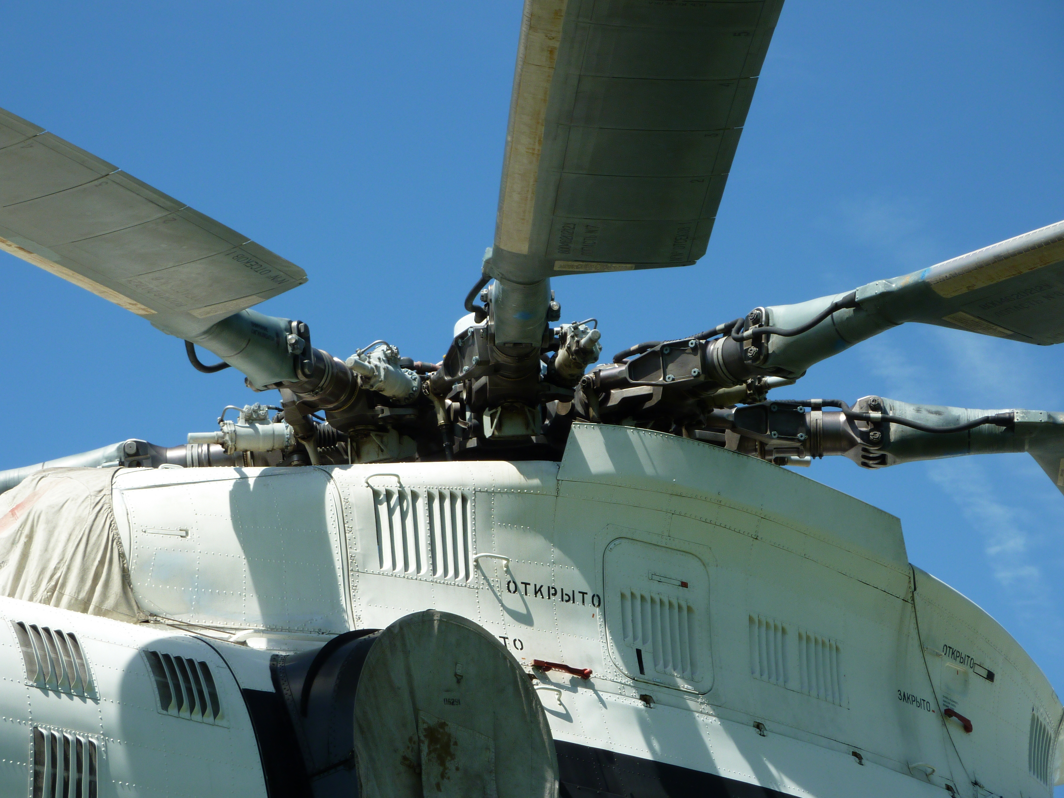 Main rotor details Mil_Mi26